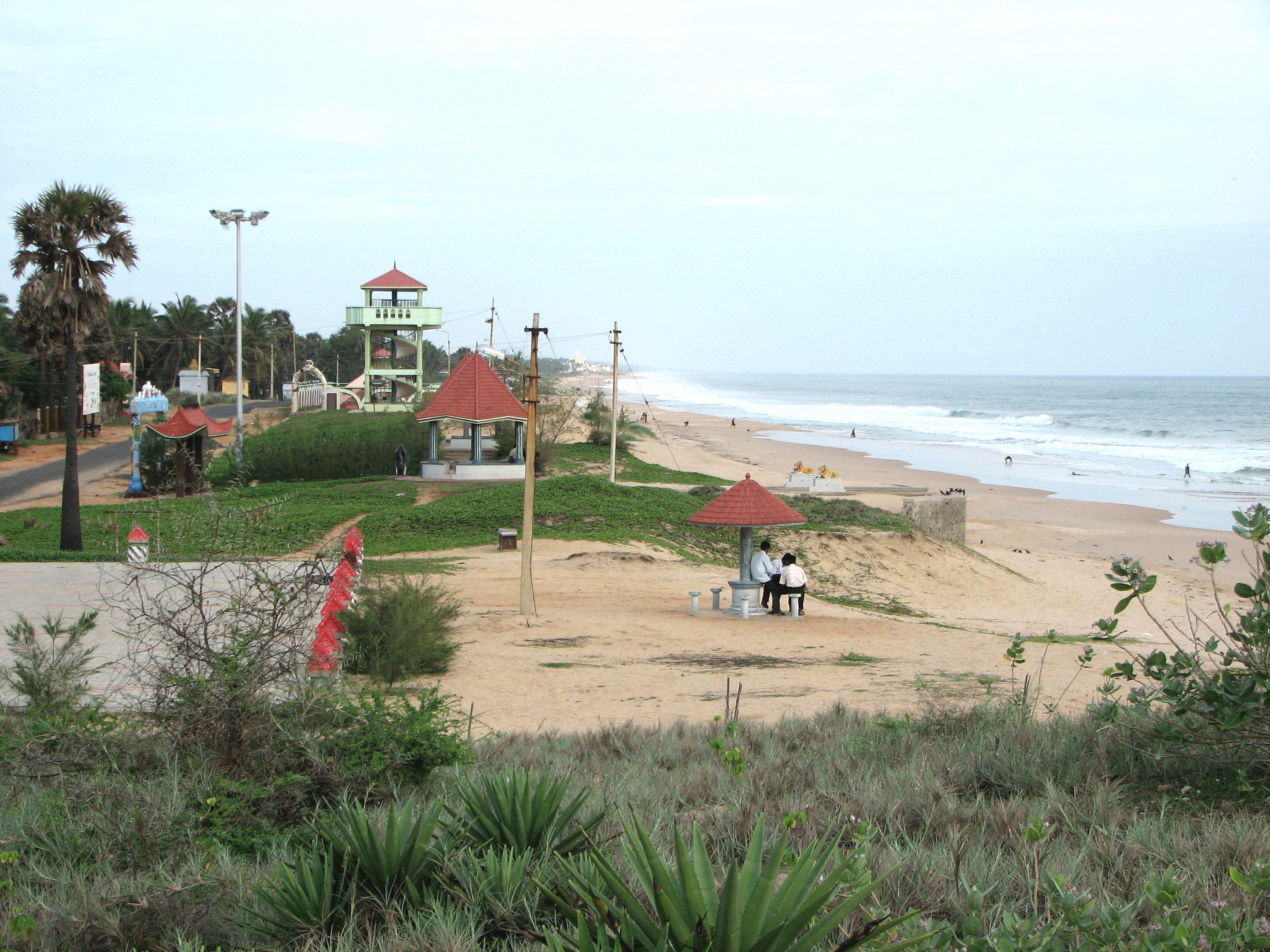 self-made photograph ; Author's Name : Infocaster